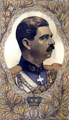 King Carol II of Romania on 1000 lei bill (issue 1934)